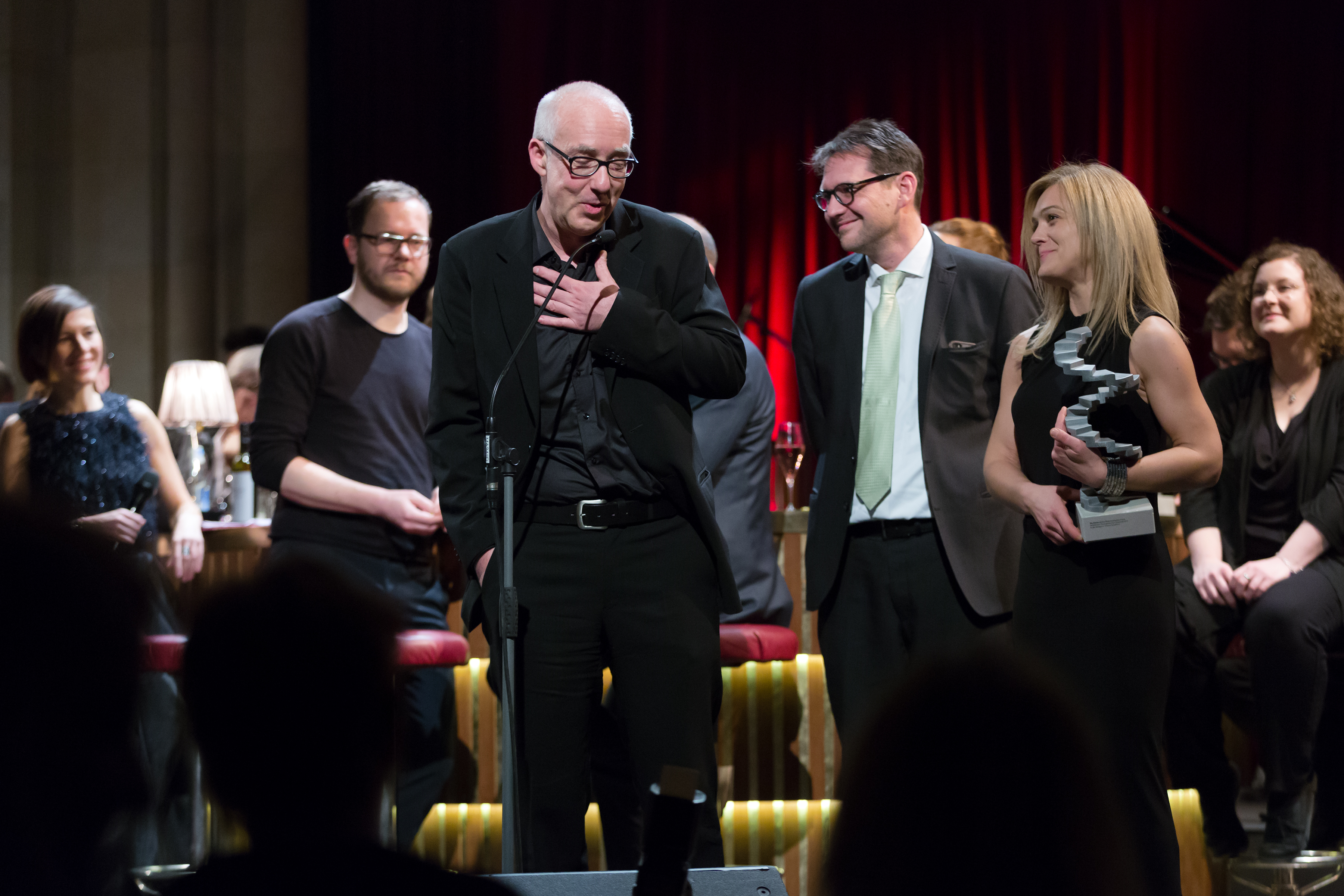 Austrian Film Awards 2017 - best feature film: Thank You for Bombing; Barbara Eder (writer and director), Tommy Pridnig (writer, producer) and Peter Wirthensohn (producer); Rathaus, Vienna, Austria.